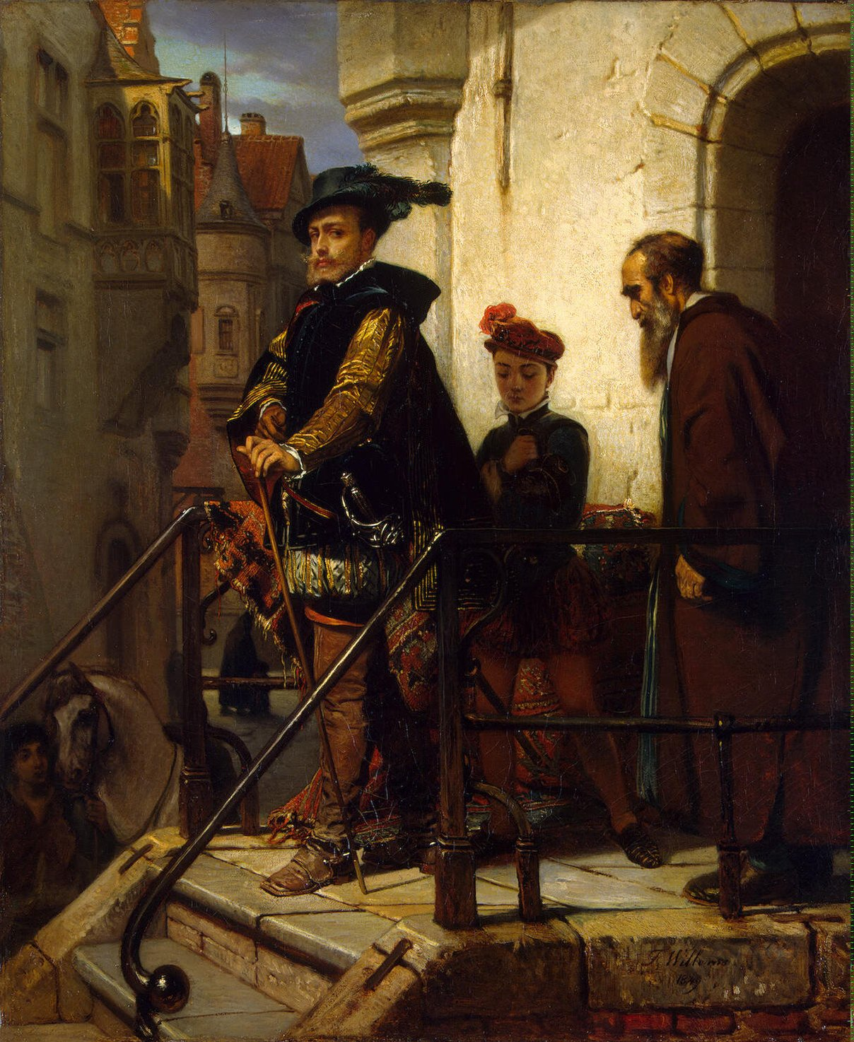 Spanish_Grandee_Leaving_his_Creditor